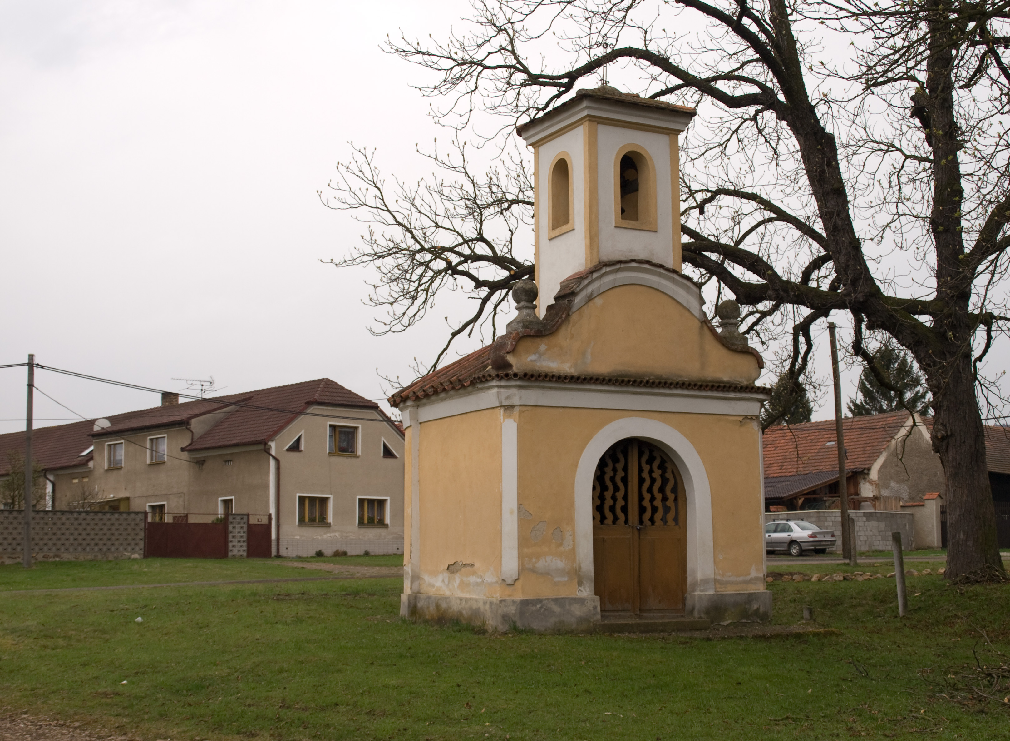 Radouš, Beroun District, Central Bohemian Region, Czech Republic